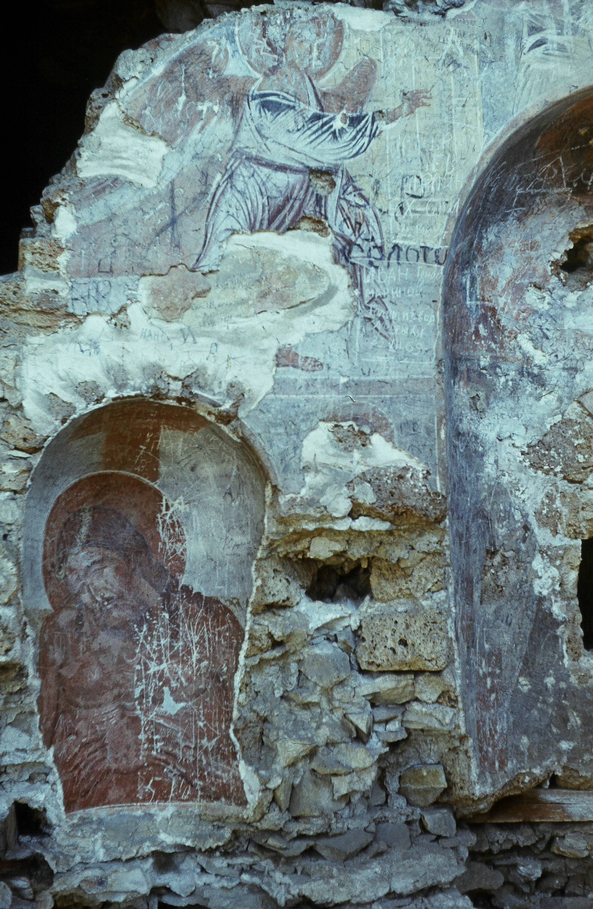 Paintings in the old St. Nikolaus monastery (Gligora) near the village of Karlukovo, Bulgaria. XVI century.